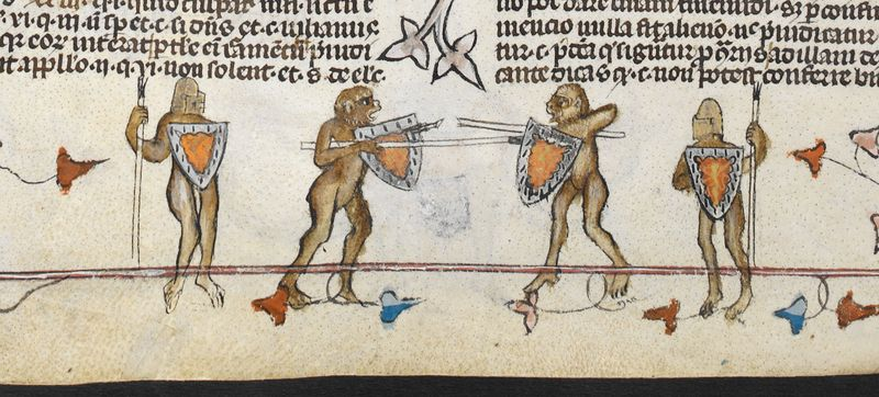 Detail of a bas-de-page scene of apes using the Batayle shield, from the Smithfield Decretals, southern France (probably Toulouse), c. 1300, with illuminations added in England (London) c. 1340, Royal MS 10 E. iv, f. 75v